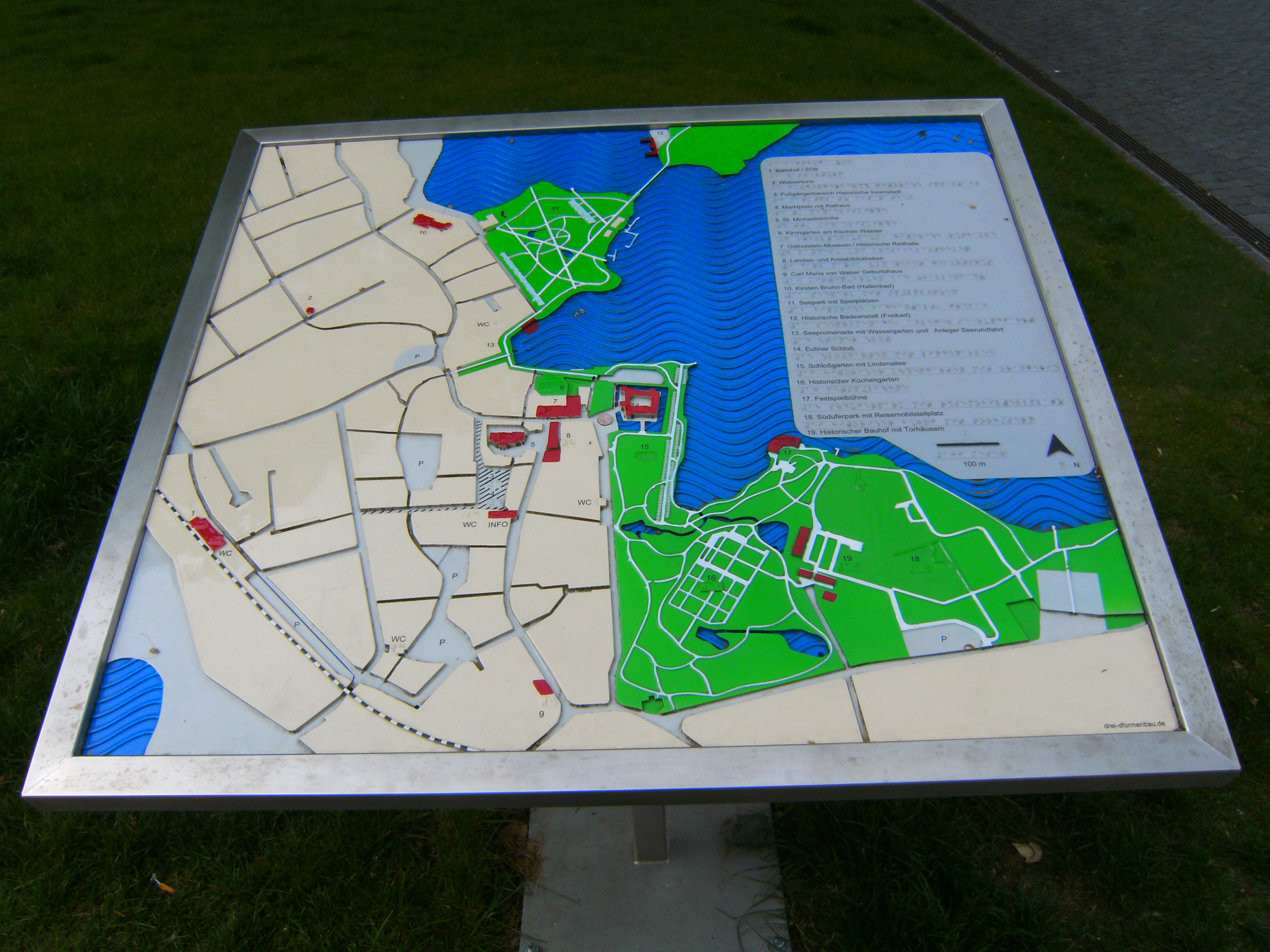 Eutin Castle in Eutin, Germany: Plaque near the castle of the castle park .